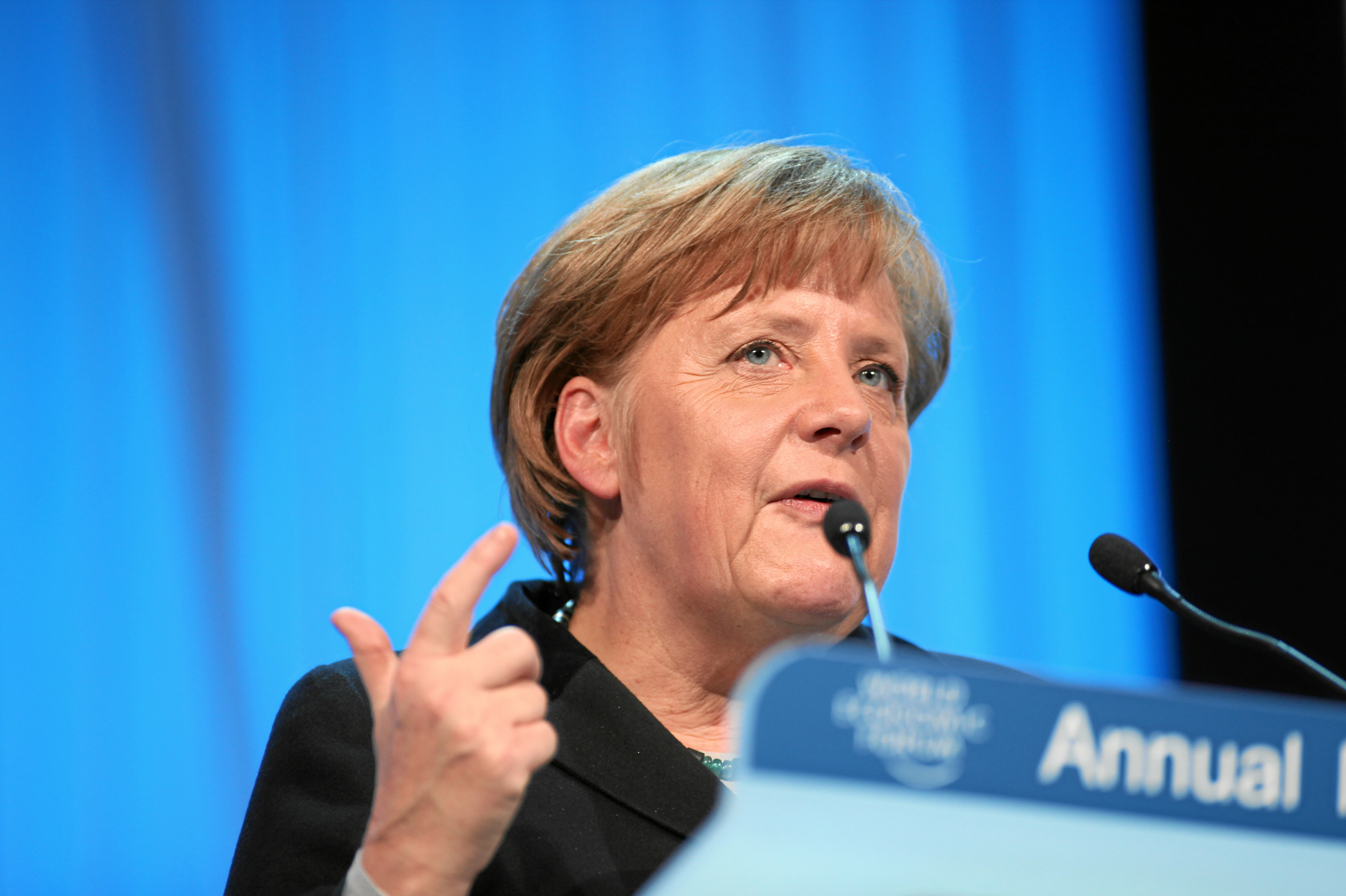 Angela Merkel, Federal Chancellor of Germany at the Annual Meeting 2012 of the World Economic Forum at the congress centre in Davos, Switzerland, January 25, 2012. Copyright by World Economic Forum by Monika Flueckiger